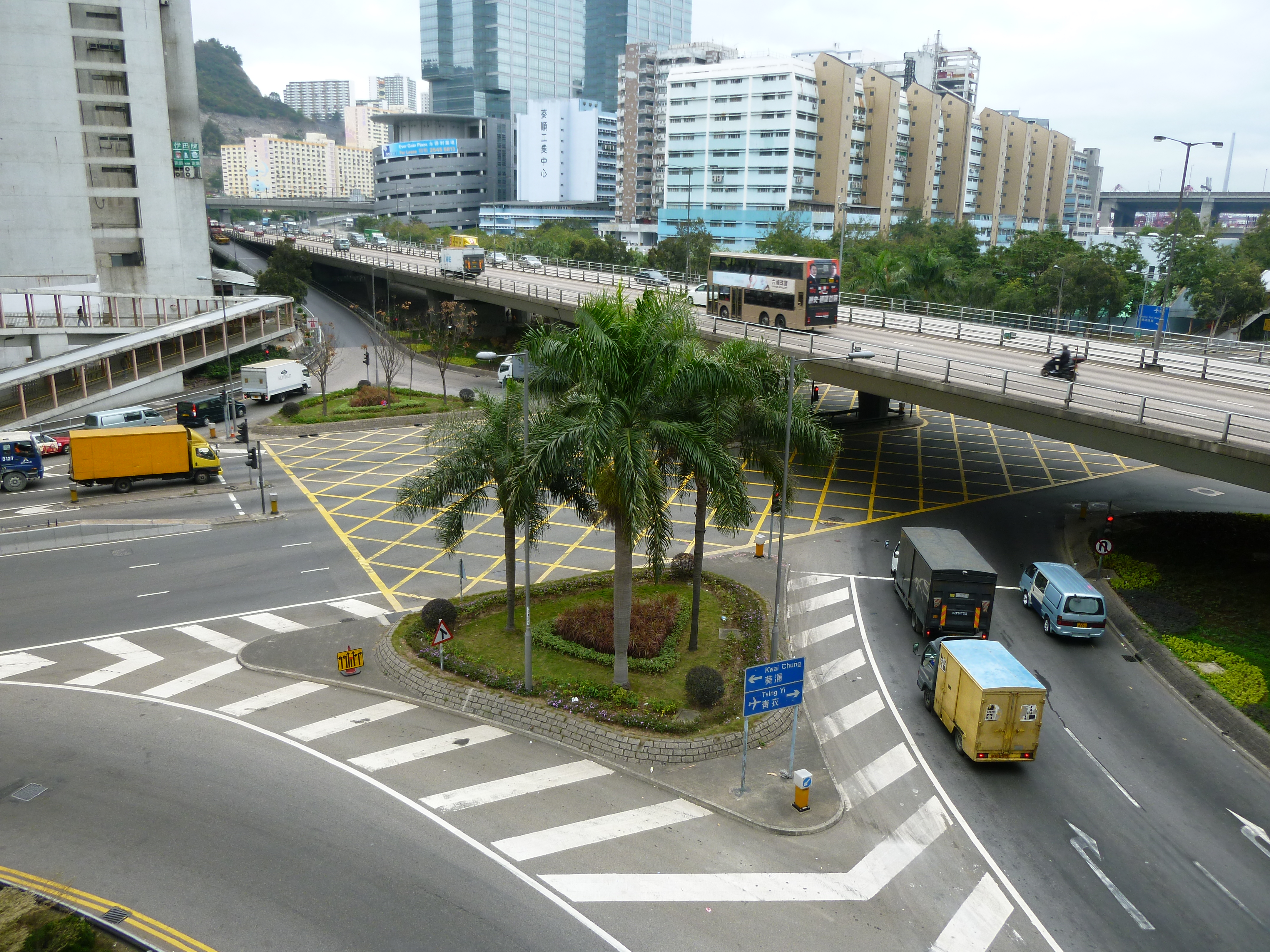 Kwai Tsing Interchange (Kwai Fong, Hong Kong)